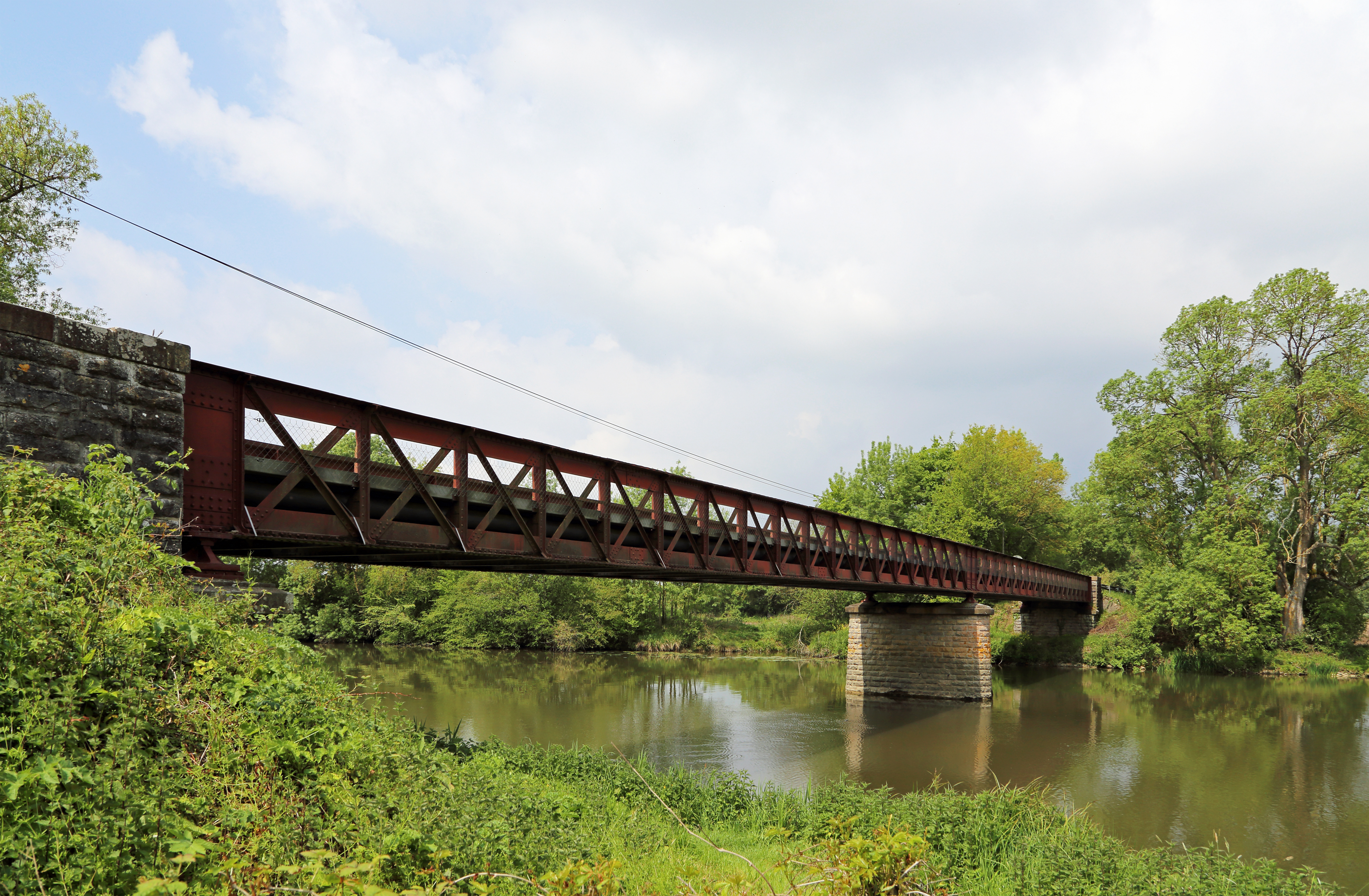 La Chapelle-aux-Choux (département de la Sarthe, France): the bridge on the Loir river